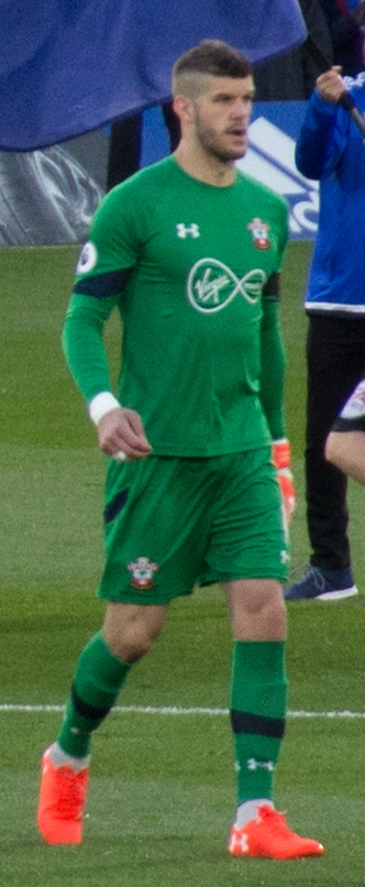 Fraser Forster playing for Southampton against Chelsea at Stamford Bridge, London on 25 April 2017